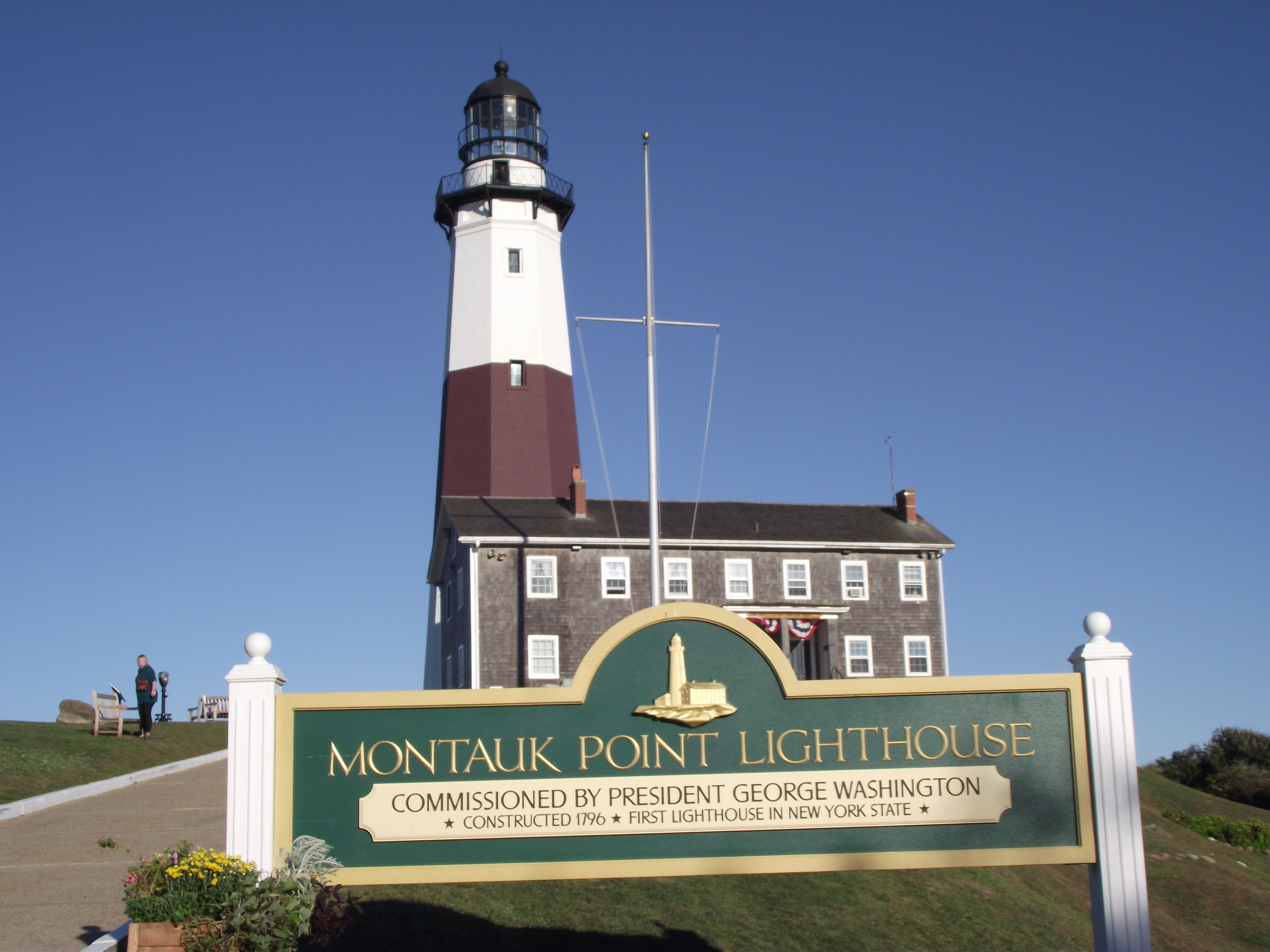 Montauk Point Lighthouse